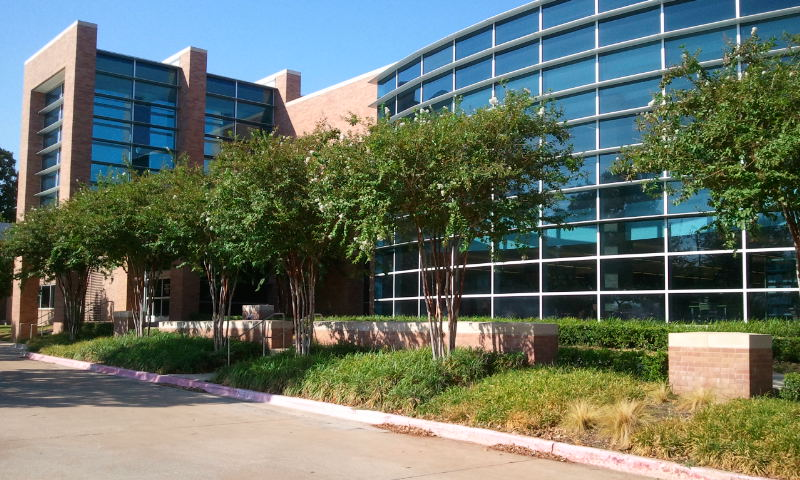 Front of the Lewisville Public Library in Lewisville, Texas.